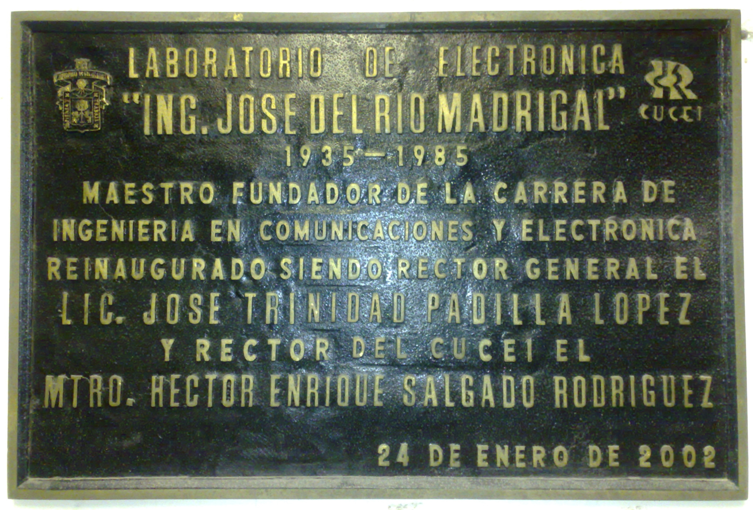 Conmemorative plate of Electronic's Lab of CUCEI-UDG "Ing. José del Río Madrigal".